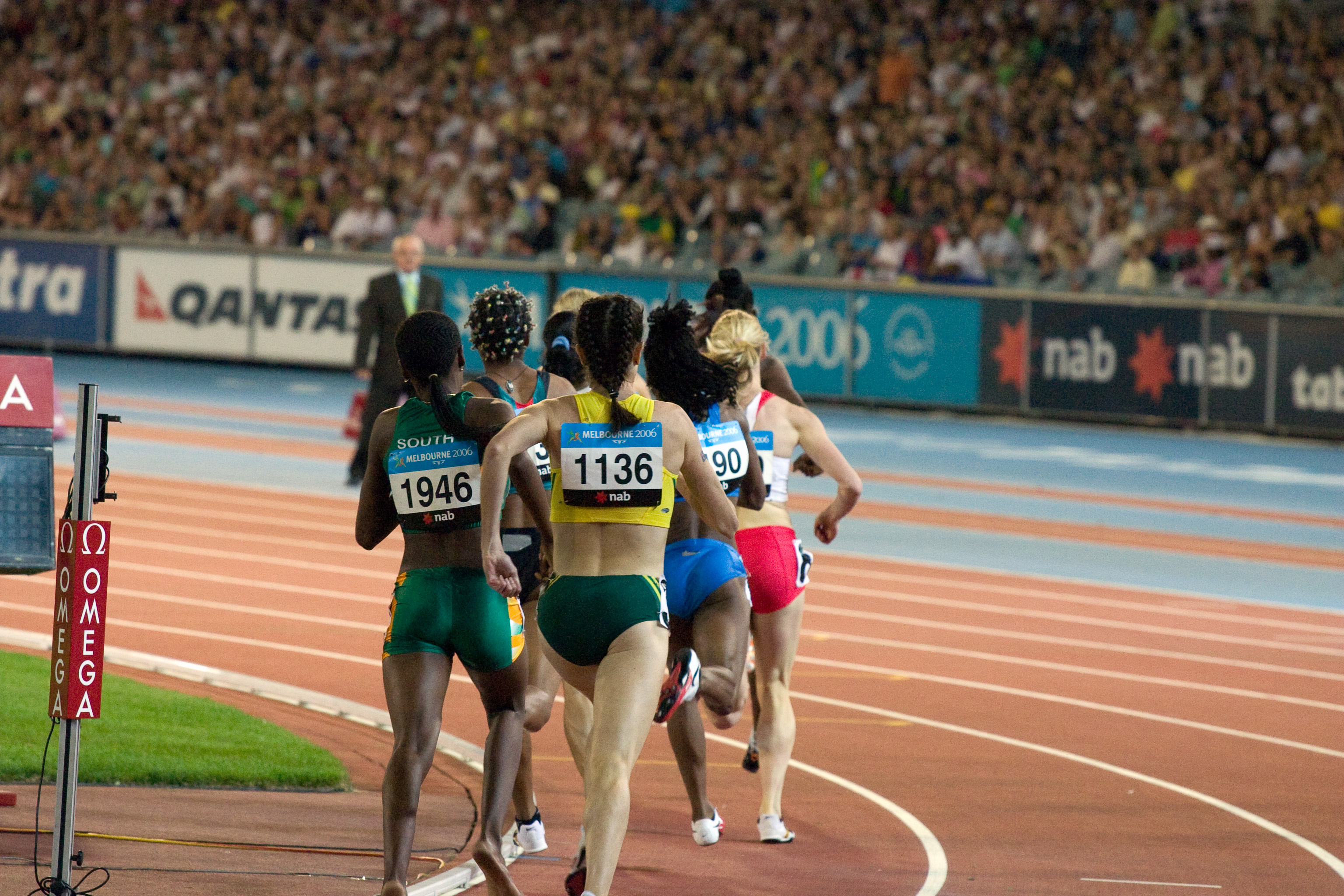 2006 Commonwealth Games